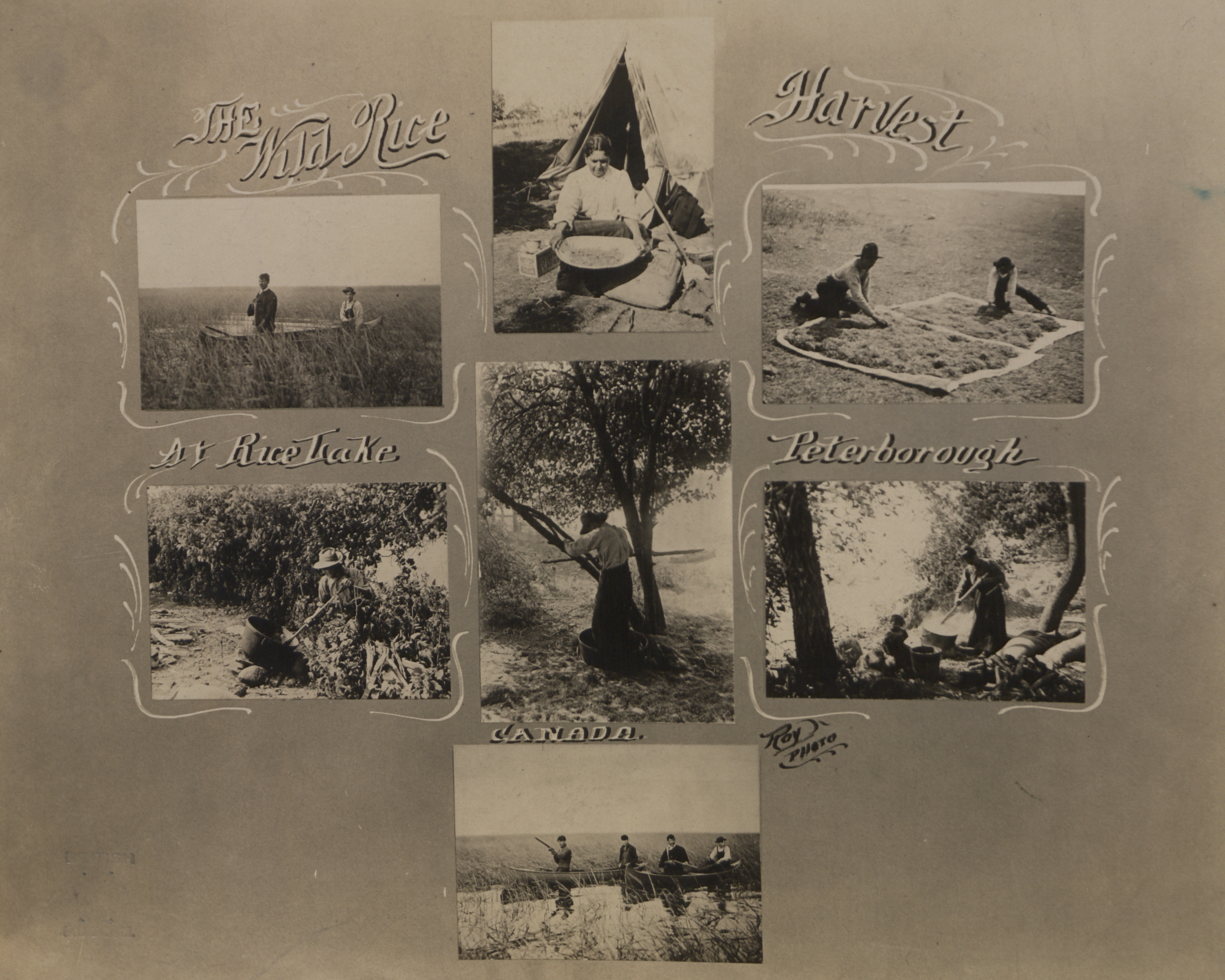 Original caption: “The Wild Rice Harvest, Peterborough.”